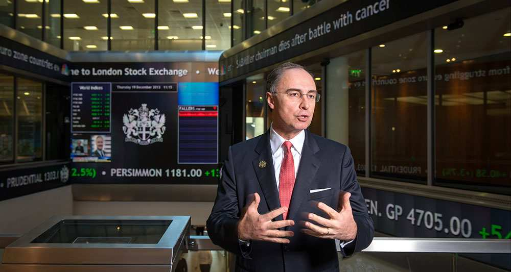 Xavier R. Rolet, KBE